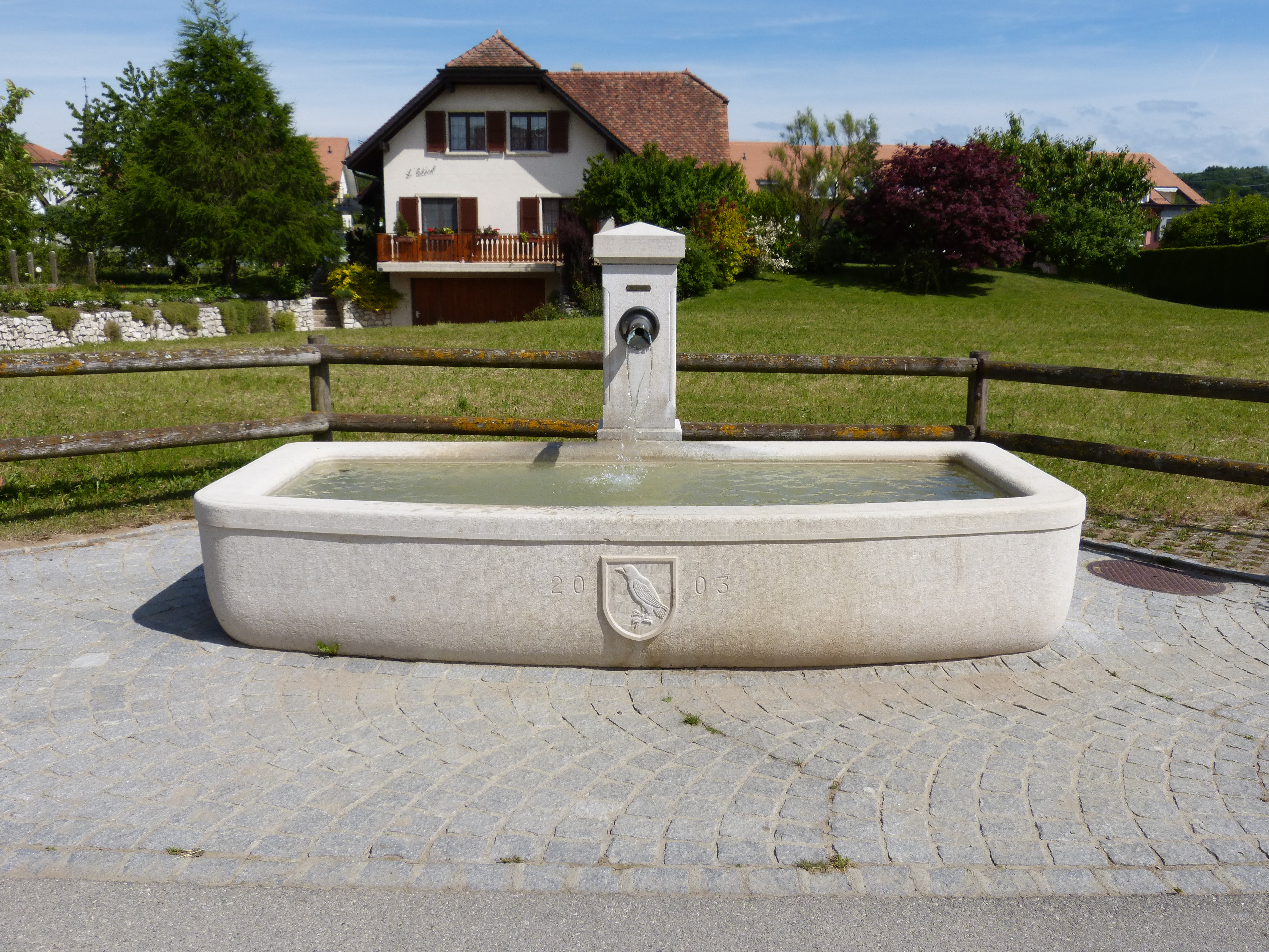 Fountain on the Praz-Chemard street in Étagnières.